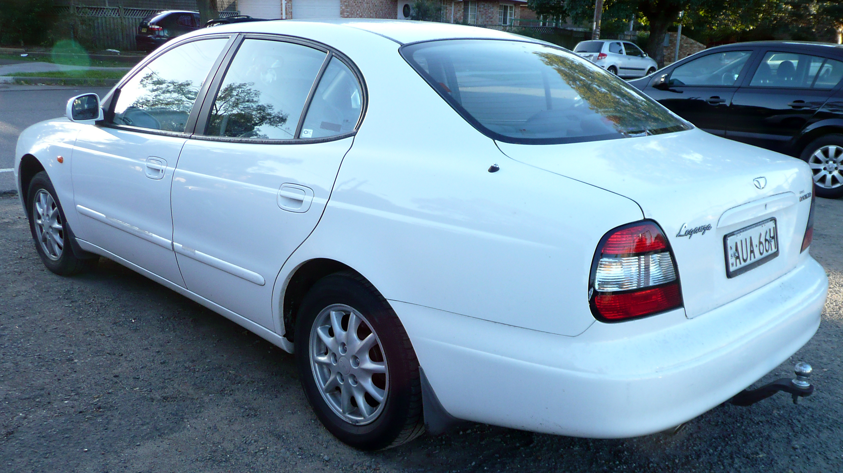 2002 Daewoo Leganza (V100) sedan. Photographed in Sutherland, New South Wales, Australia.